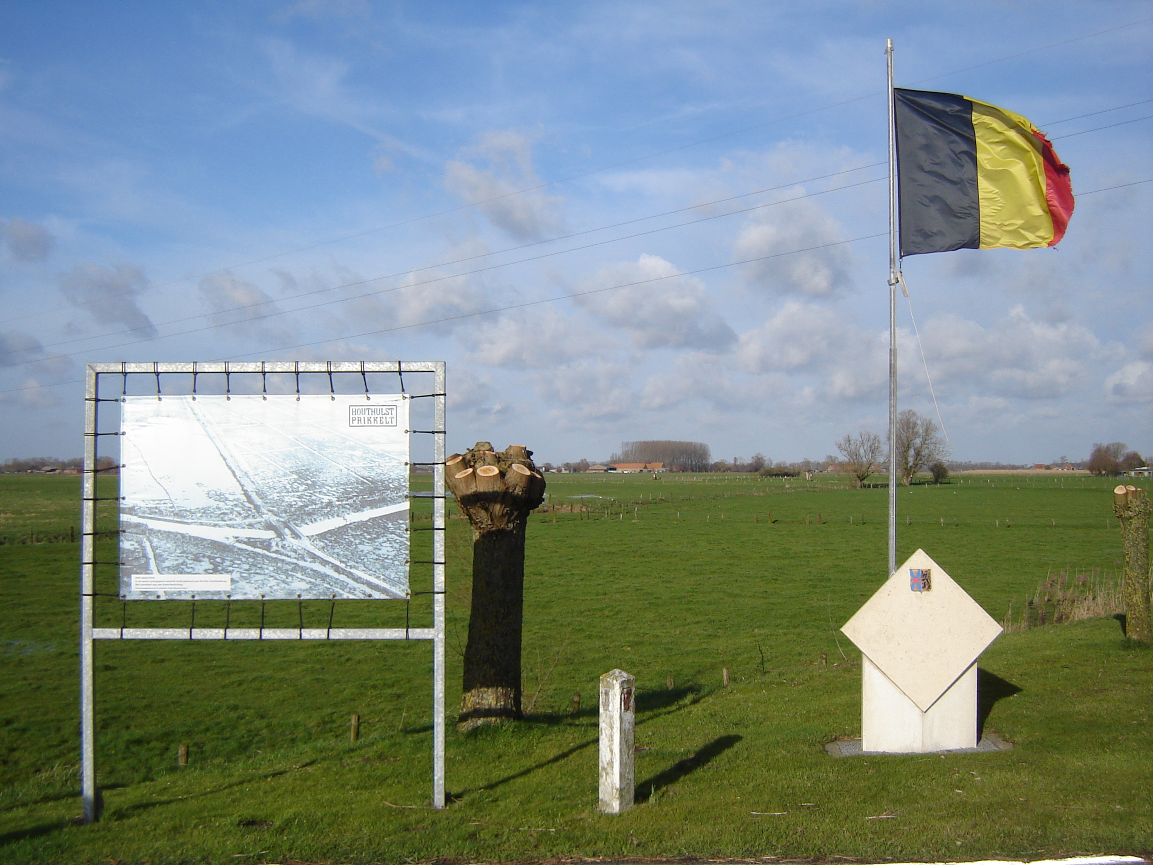 Name stone 1914-1918 - "Drie Grachten Voorpost" (Drie Grachten Outpost) (no. 20, fourth series) in the hamlet of Drie Grachten. Merkem, Houthulst, West Flanders, Belgium